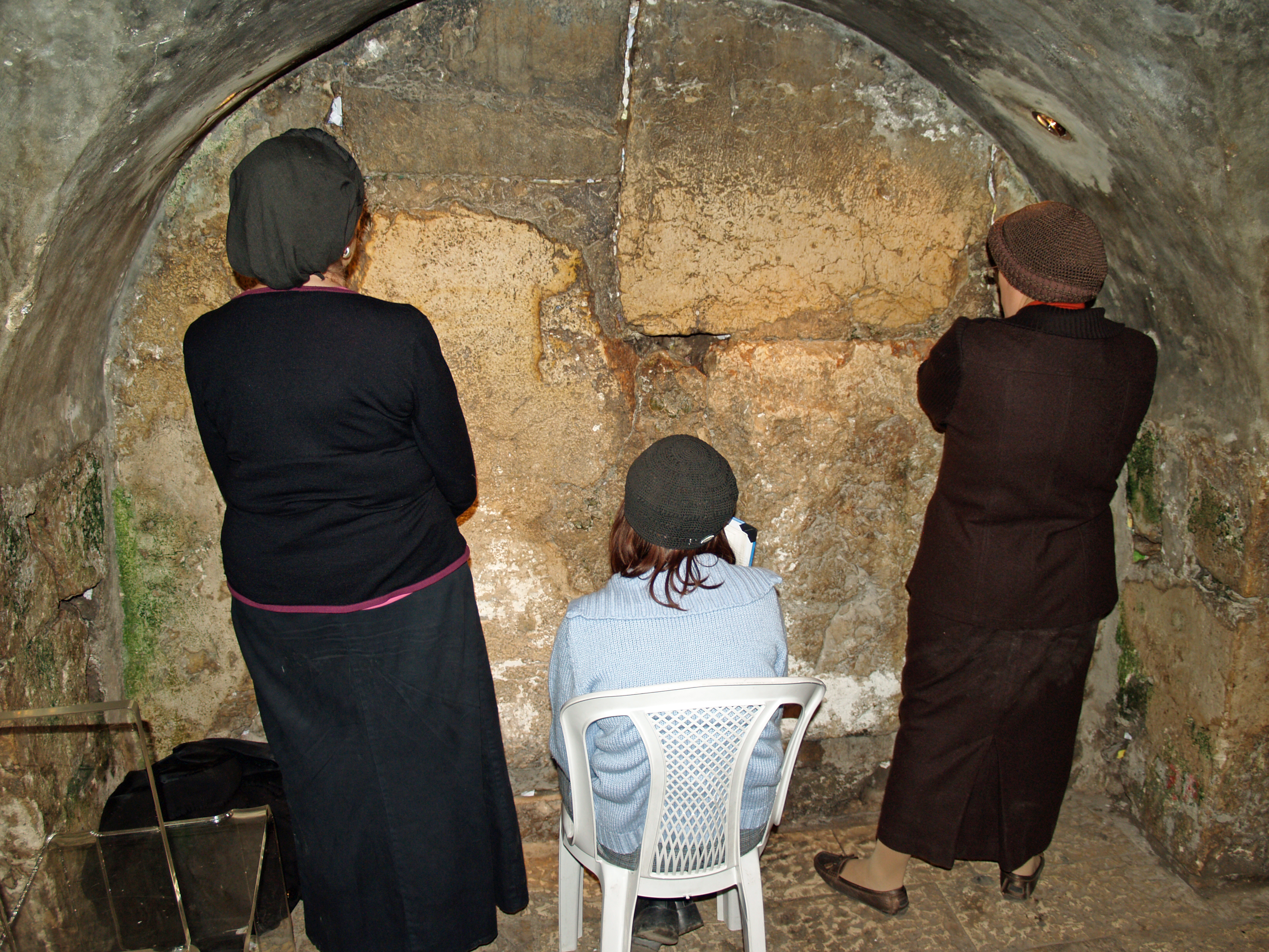 Women praying in the Western Wall tunnels. This is a spot in the tunnel where Jewish women can be physically the closest to the holy of holies, so they face it in that direction and pray at the wall.